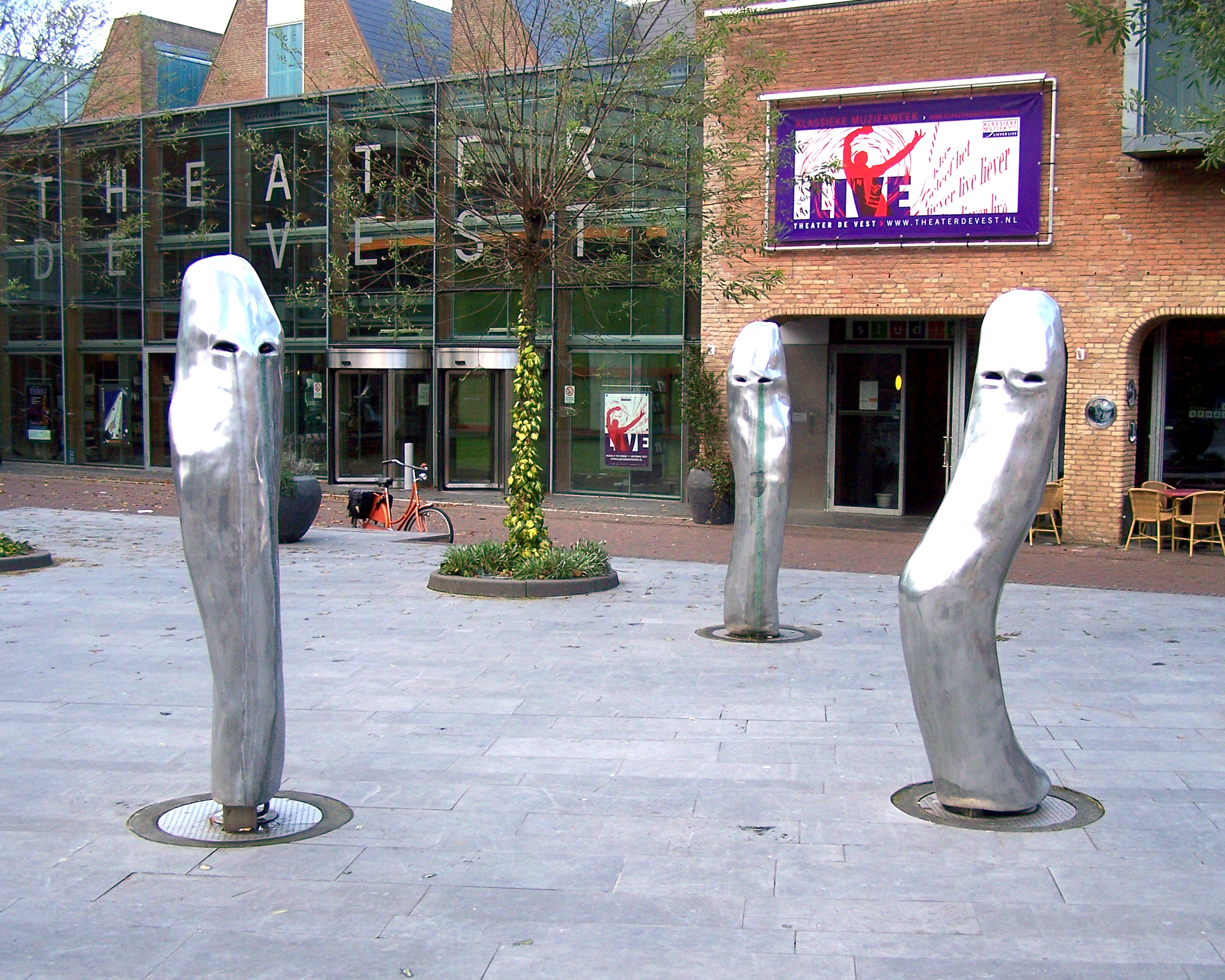 Sculpture Spoken huilen omdat ze niet bestaan (2000) by Arjen Lancel at the Canadaplein in Alkmaar/The Netherlands.